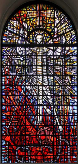 St Michael Paternoster Royal, College Hill, London EC4 - Window Depicting St Michael, artist John Hayward